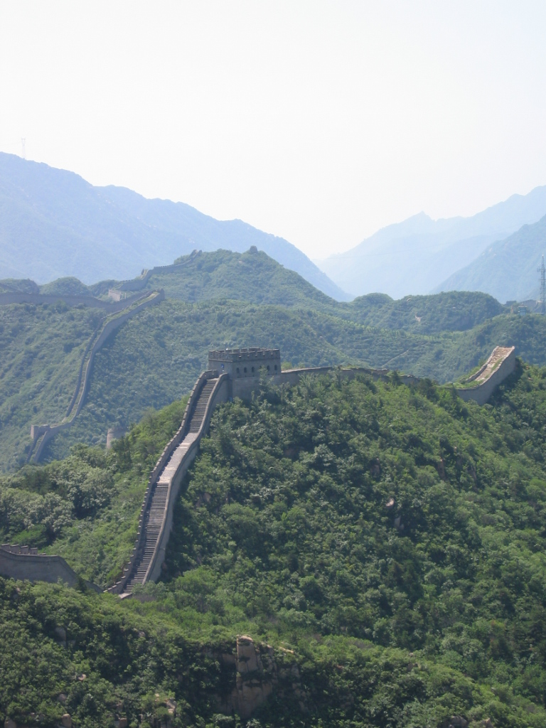 The Great Wall of China at Badaling